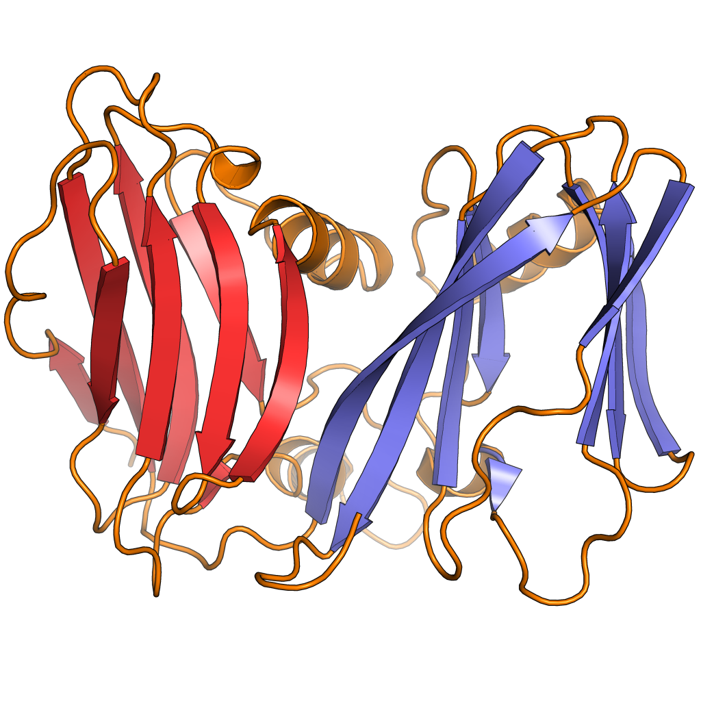 The major capsid protein P2 from the bacteriophage PM2, illustrating the double jelly roll fold found in the major capsid proteins of double-stranded DNA viruses of the PRD1-adenovirus lineage. The two distinct jelly roll domains are colored red and blue, with intervening loops and helices colored orange. The topology and connectivity in each jelly roll is identical to that illustrated in File:4oq9 chainA jellyroll.png. The trimeric assembly is illustrated in File:2w0c_trimer.png and the full capsid in File:2w0c_capsid.png. Rendered from chain H of PDB ID 2W0C: Abrescia NG, Grimes JM, Kivelä HM, Assenberg R, Sutton GC, Butcher SJ, Bamford JK, Bamford DH, Stuart DI. Insights into virus evolution and membrane biogenesis from the structure of the marine lipid-containing bacteriophage PM2. Molecular cell. 2008 Sep 5;31(5):749-61. DOI 10.1016/j.molcel.2008.06.026.